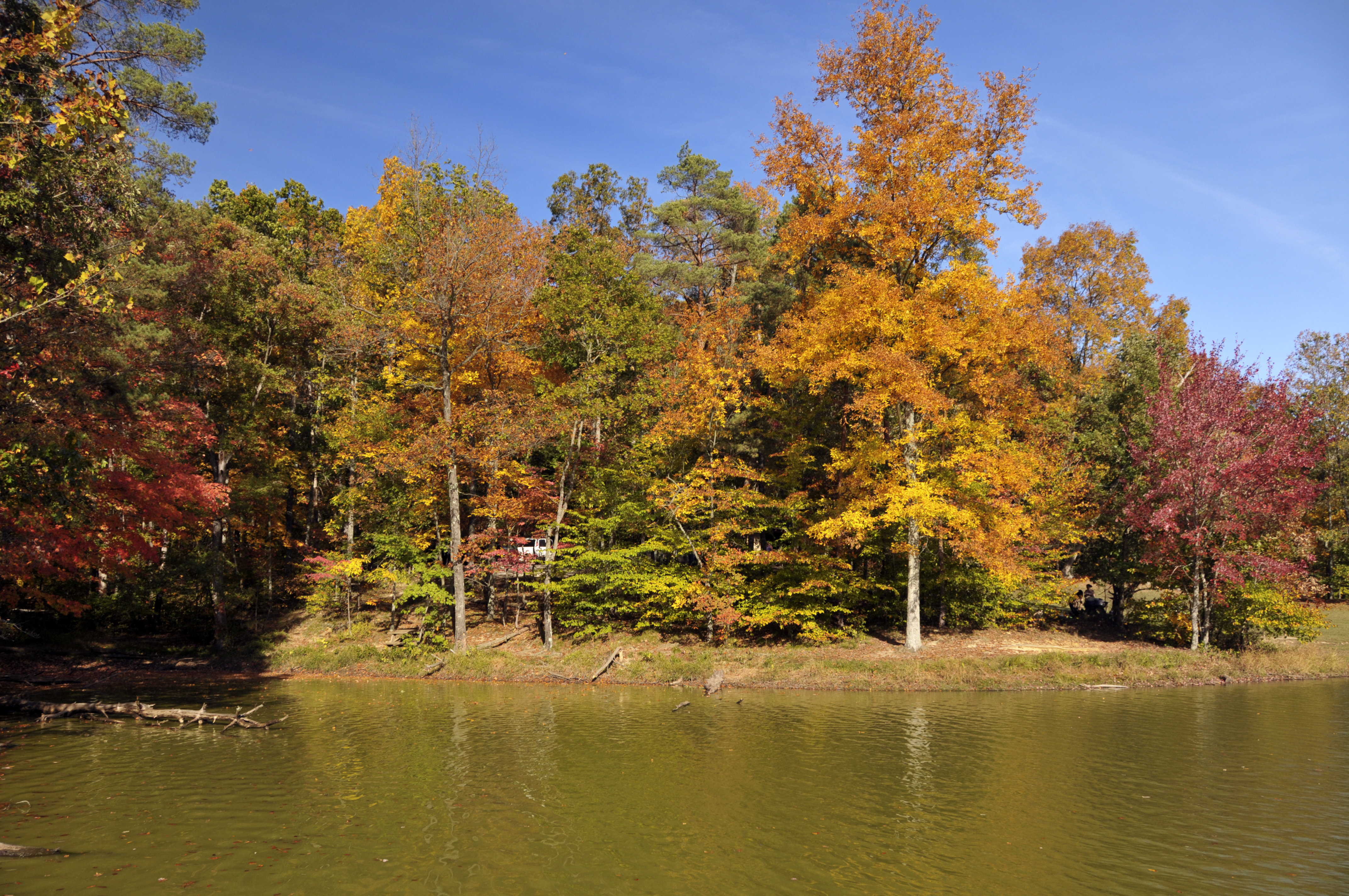 capture NX used to make sky bluer and trees livelier